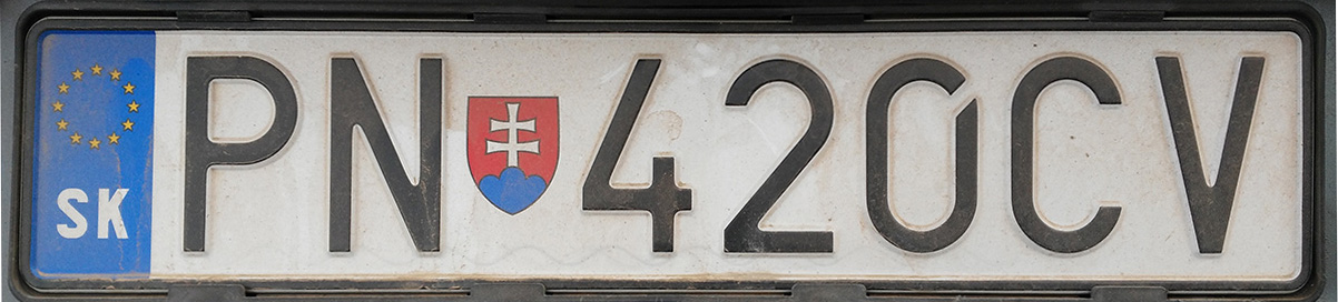 License plate of Slovakia